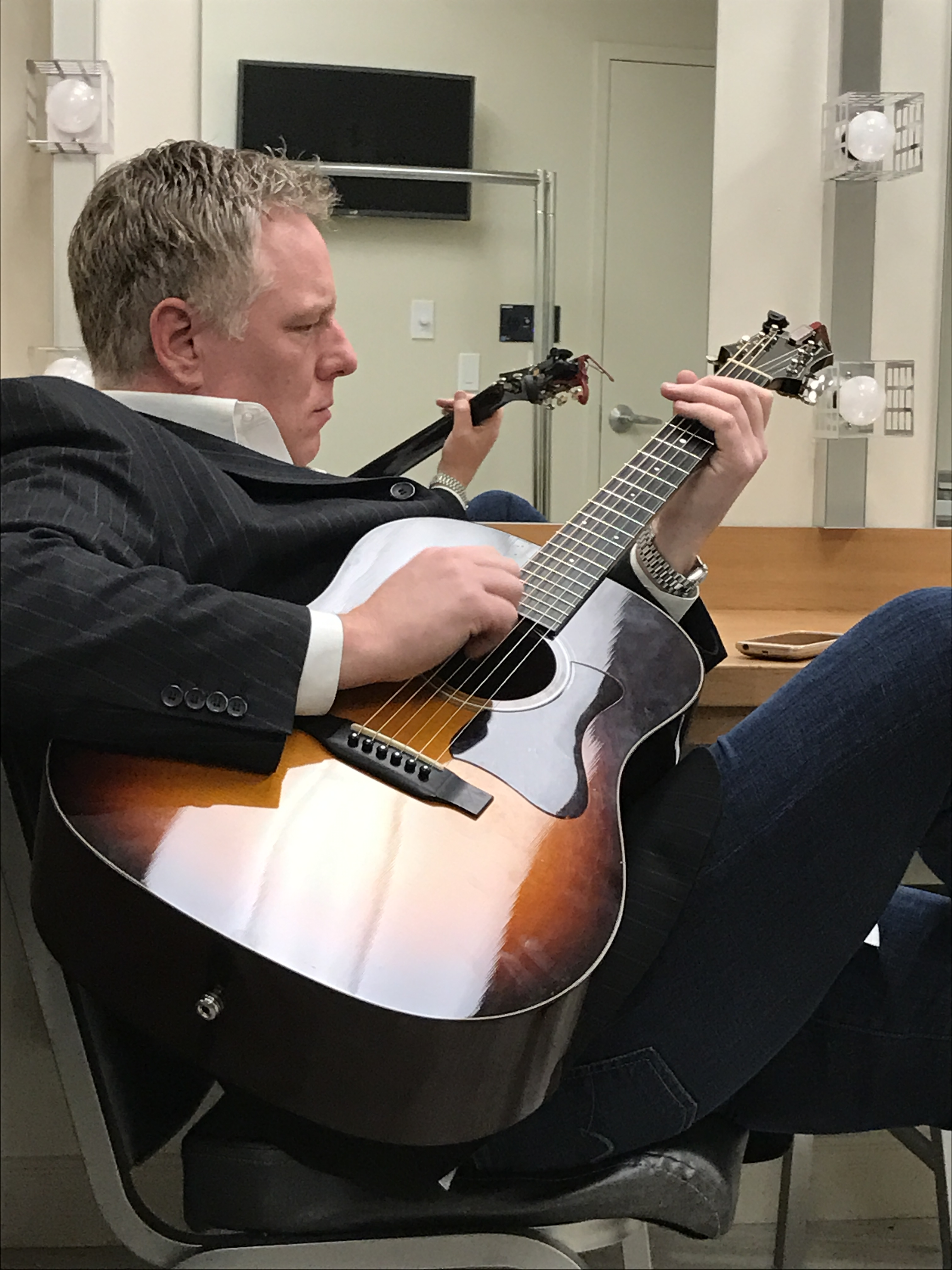 Songwriter/producer Jimmy Ritchey